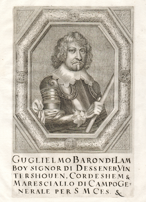 Wilhelm III De Lamboy